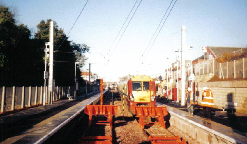 Larkhall station on the Argyll line, near Glasgow. The view is looking towards Glasgow Central on the first day of operation for paying passengers.